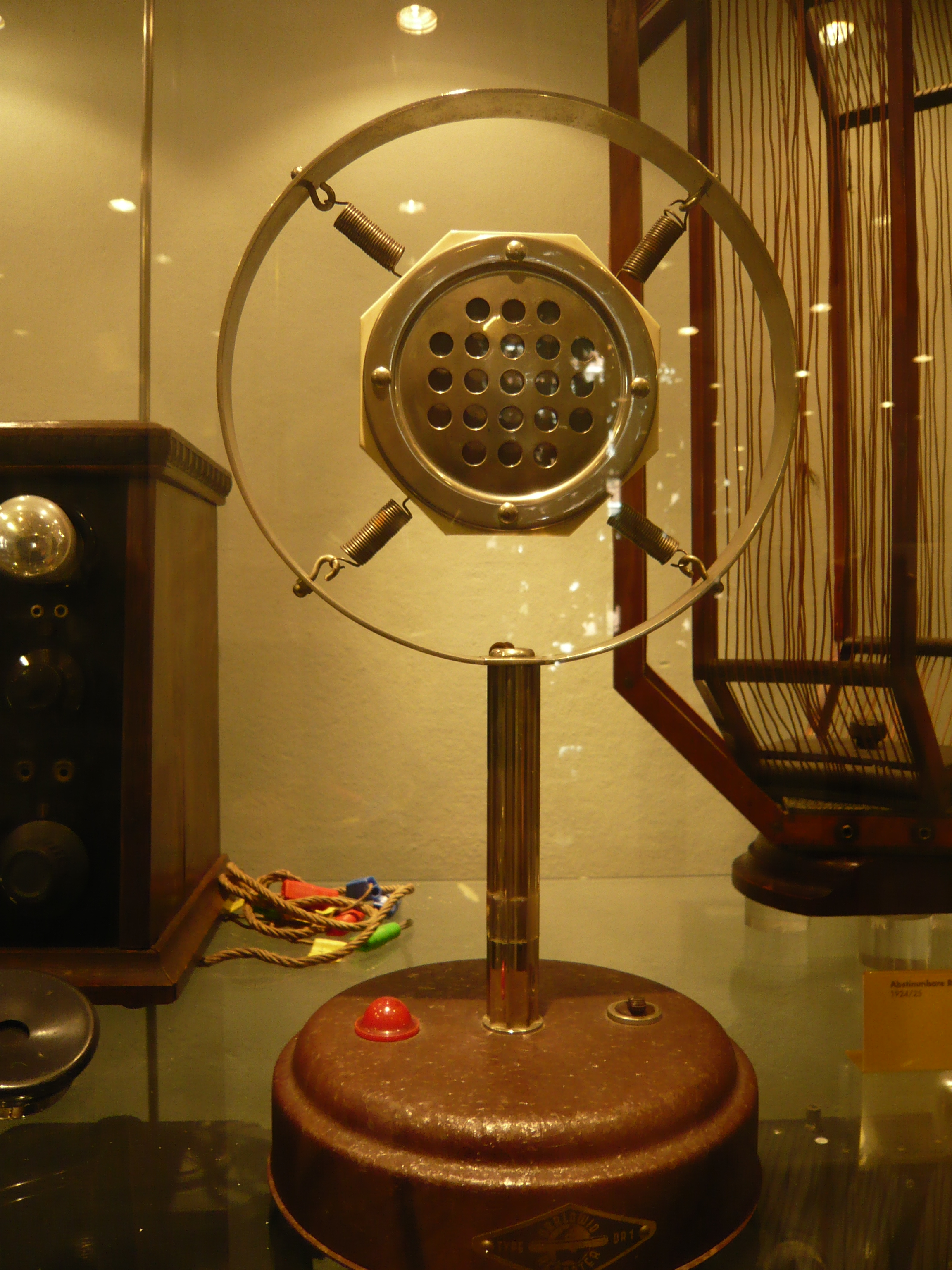 The DR1 carbon microphone on a "ring and spring" suspension. The DR-1 was made in 1934-1939 in Germany by Dralowid-Werke (aka Steatit-Magnesia AG, Steatit-Magnesia AG Berlin-Nürnberg, STEAMAG) [1]. The base (where you can barely decypher Dralowid label) houses a battery; there's no active amplification (carbon microphone itself produces sufficient audio frequency current - if there's a DC source).